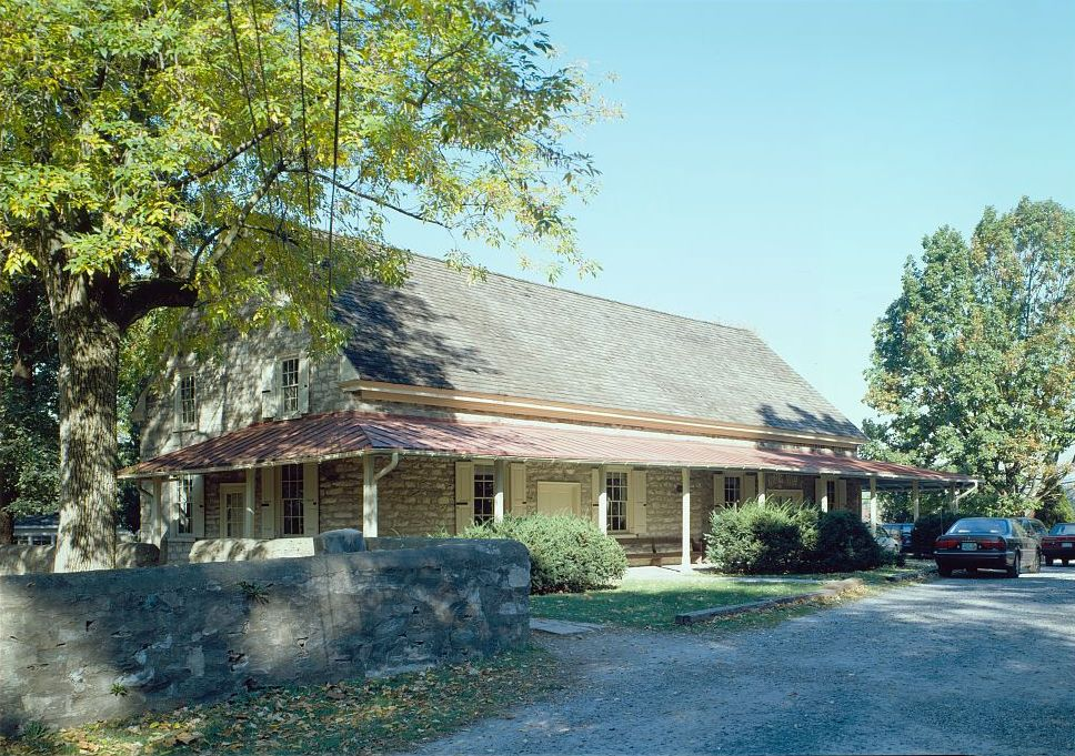 Plymouth Meetinghouse, Religious Society of Friends (Quakers), Germantown Avenue & Butler Pike, Plymouth Meeting, Montgomery County, Pennsylvania (c. 1708, enlarged 1780)